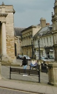 County Hall, Northampton (the building on the right with Roman Ionic half columns on the first floor)